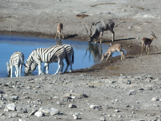 Tree Burchell's Zebra (Equus quagga burchelli), a flok of impalas (Aepyceros melampus) and one Greater Kudu (Tragelaphus stersiceros drinking in Etosha National Park, Namibia